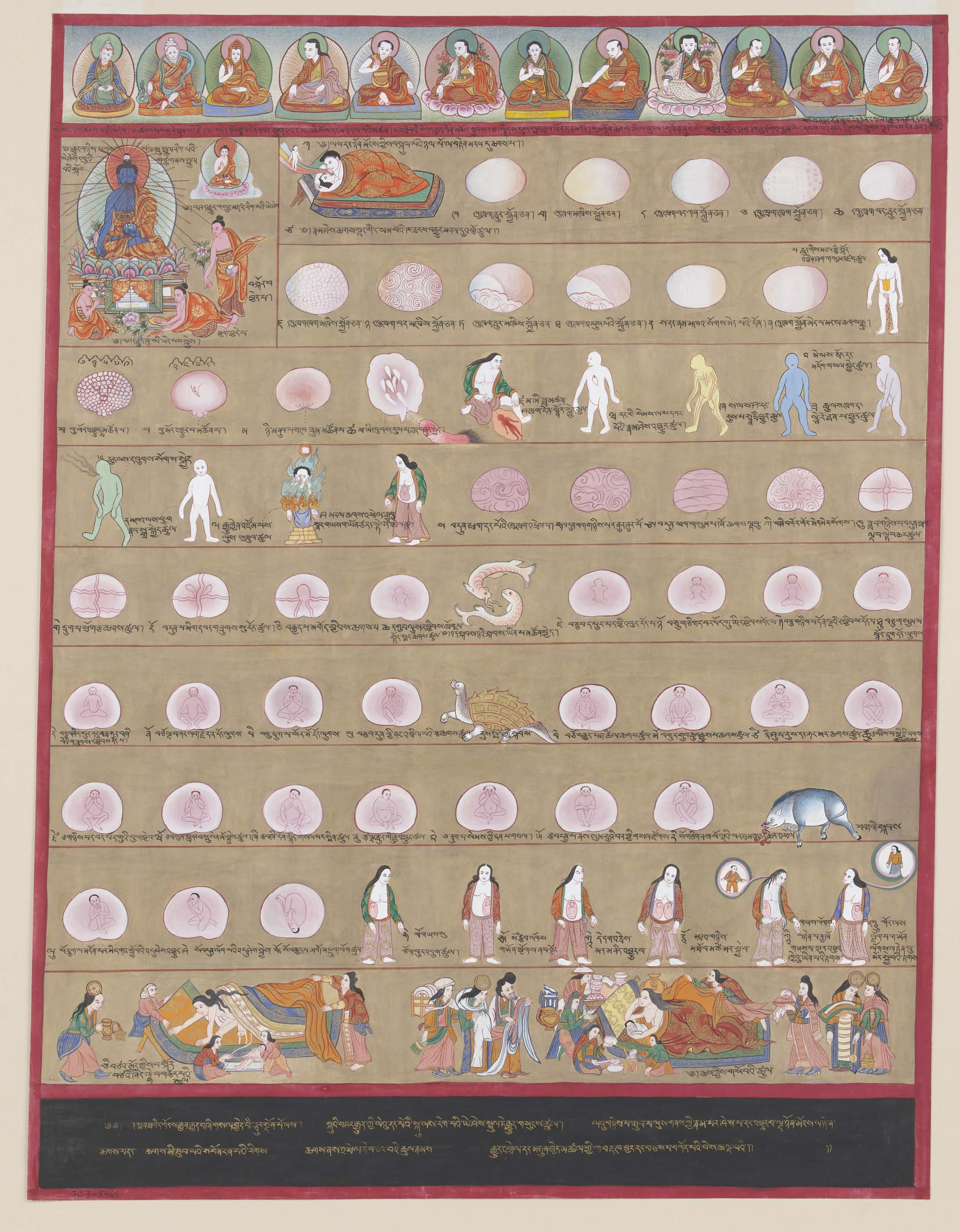 The Blue Beryl - human embryology plate